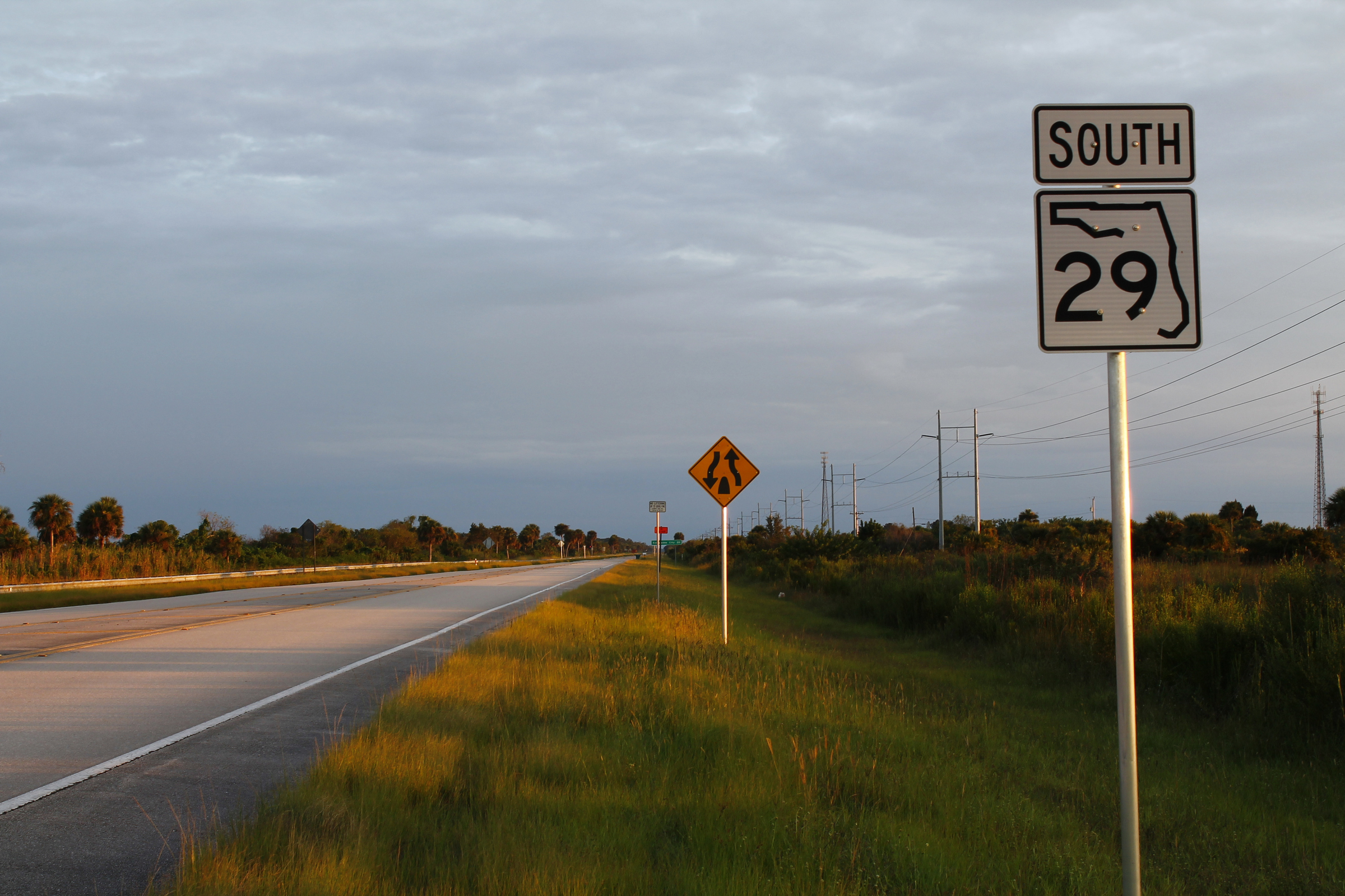 Before the intersection of I-75 (or even FL 84) and State Road 29, there was once the packing house and hamlet of Miles City near this area. A railroad between Everglades City which connected up to Lake Placid was created in the 1920s, but was dissolved after World War II. There are a few small communities and a few homes dotting this route, but it is mostly undeveloped.